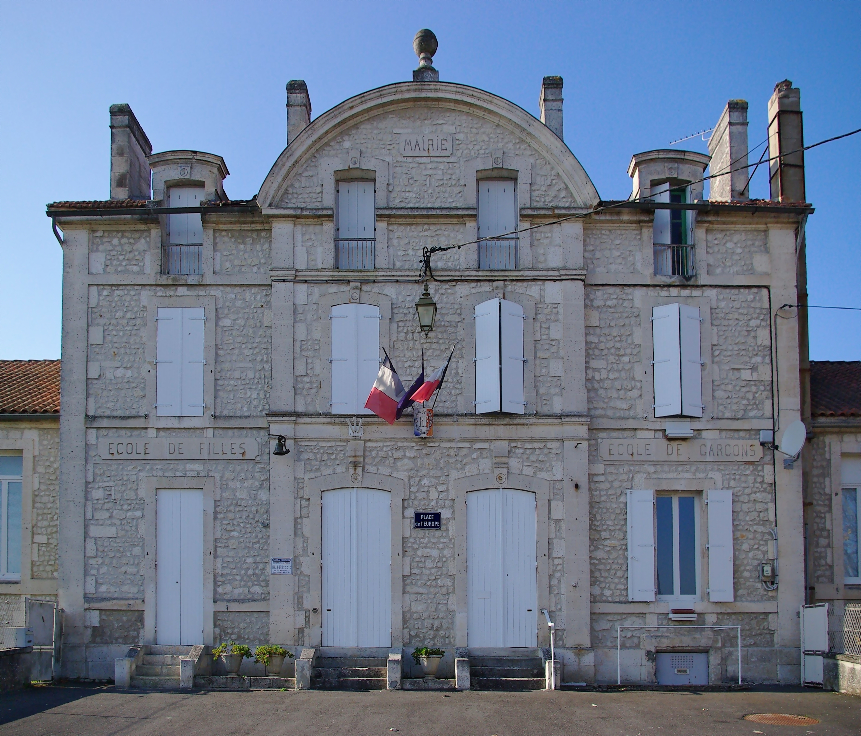 City hall of Montboyer, Charente, France.